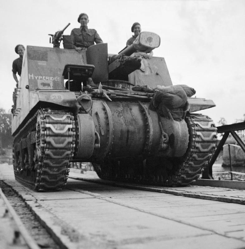 11TH ARMOURED DIVISION ADVANCE OVER THE SEINE, AUGUST 1944. A Sexton 25-Pounder self-propelled gun-howitzer of 11th Armoured Division crosses the Seine for the attack.